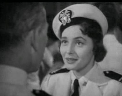 Screenshot of Patricia Neal from the film Operation Pacific